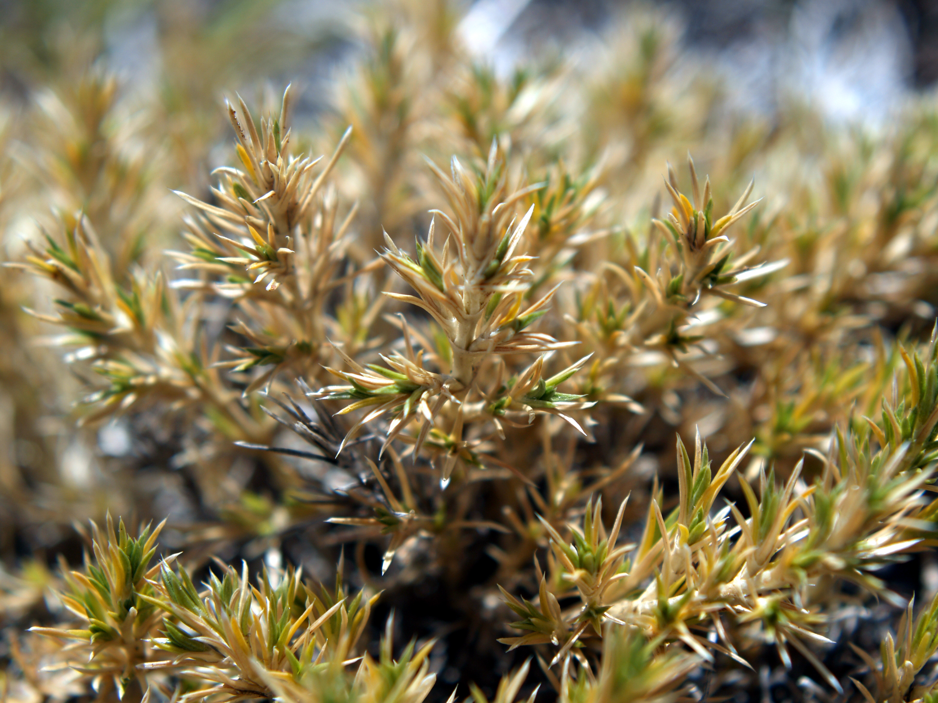 Munroa squarrosa at Wind Cave National Park, South Dakota, USA